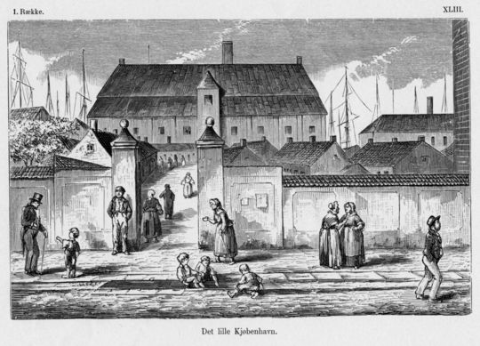 Drawing by Peter Klæstrup showing Toldbodgade in Copenhagen, Denmark. Poor people and shanty homes.